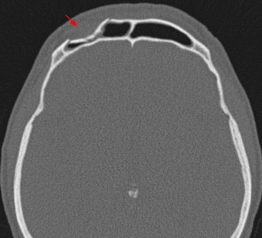 Fracture of sinus frontalis in axial computertomography. Dorsal wall not affected.